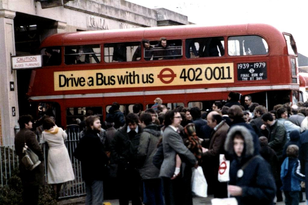 Barking Depot 7th April 1979 See where this picture was taken. [?]